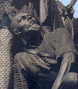 Mamai from the Millenium of Russia monument in Novgorod.